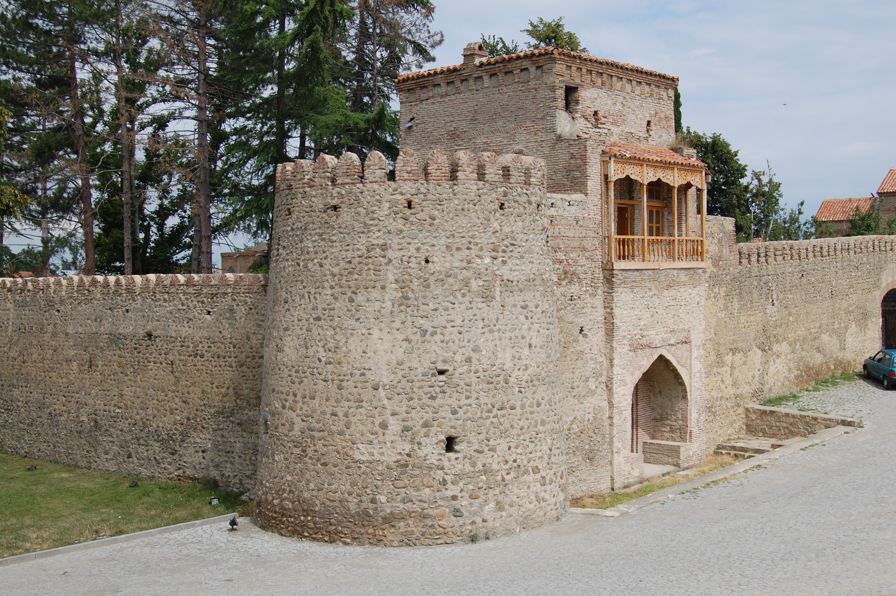 The Palace of King Erekle II in Telavi, Georgia